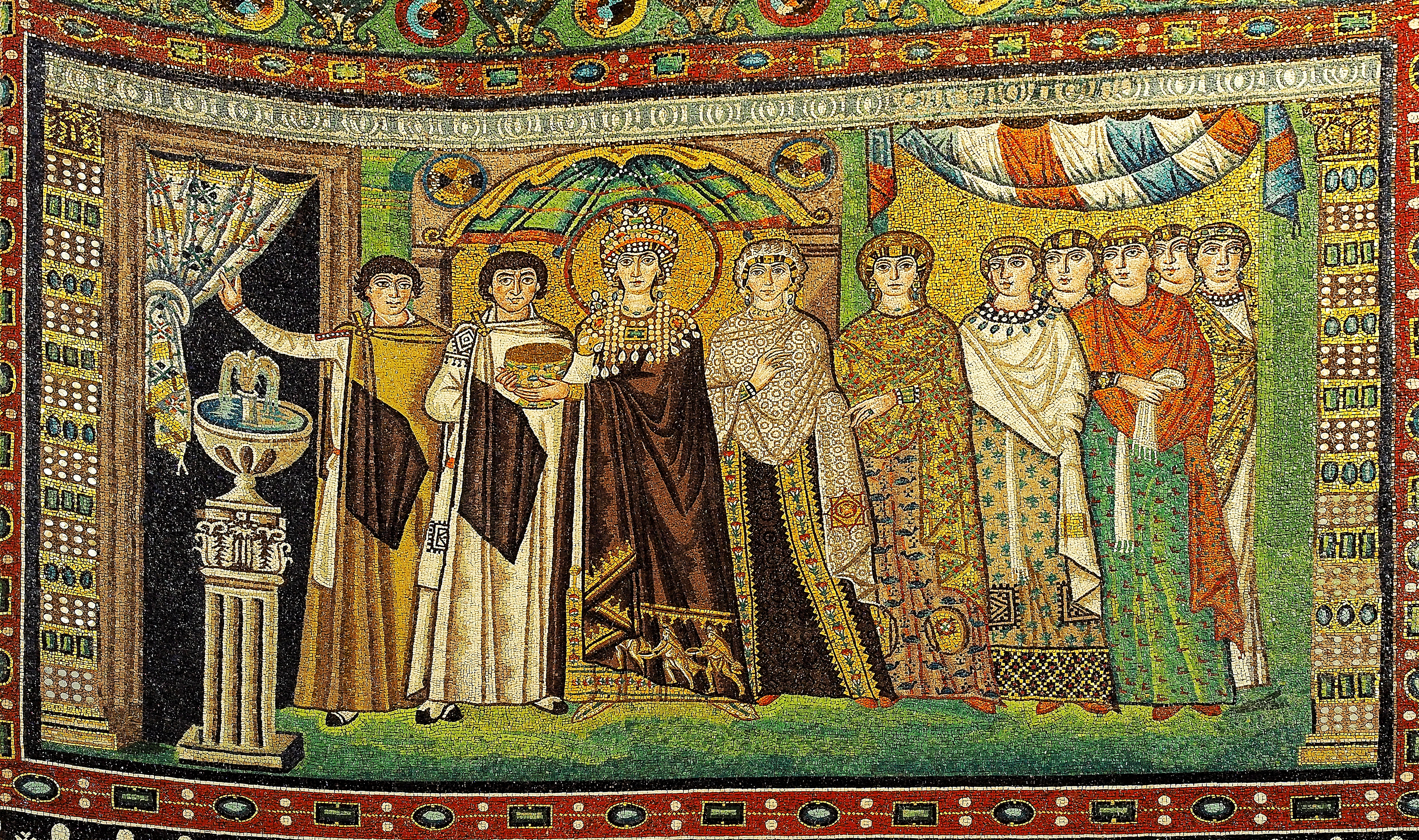 Mosaic of Theodora - Basilica of San Vitale (built A.D. 547), Italy. UNESCO World heritage site. This photograph was taken with an Olympus E-P5